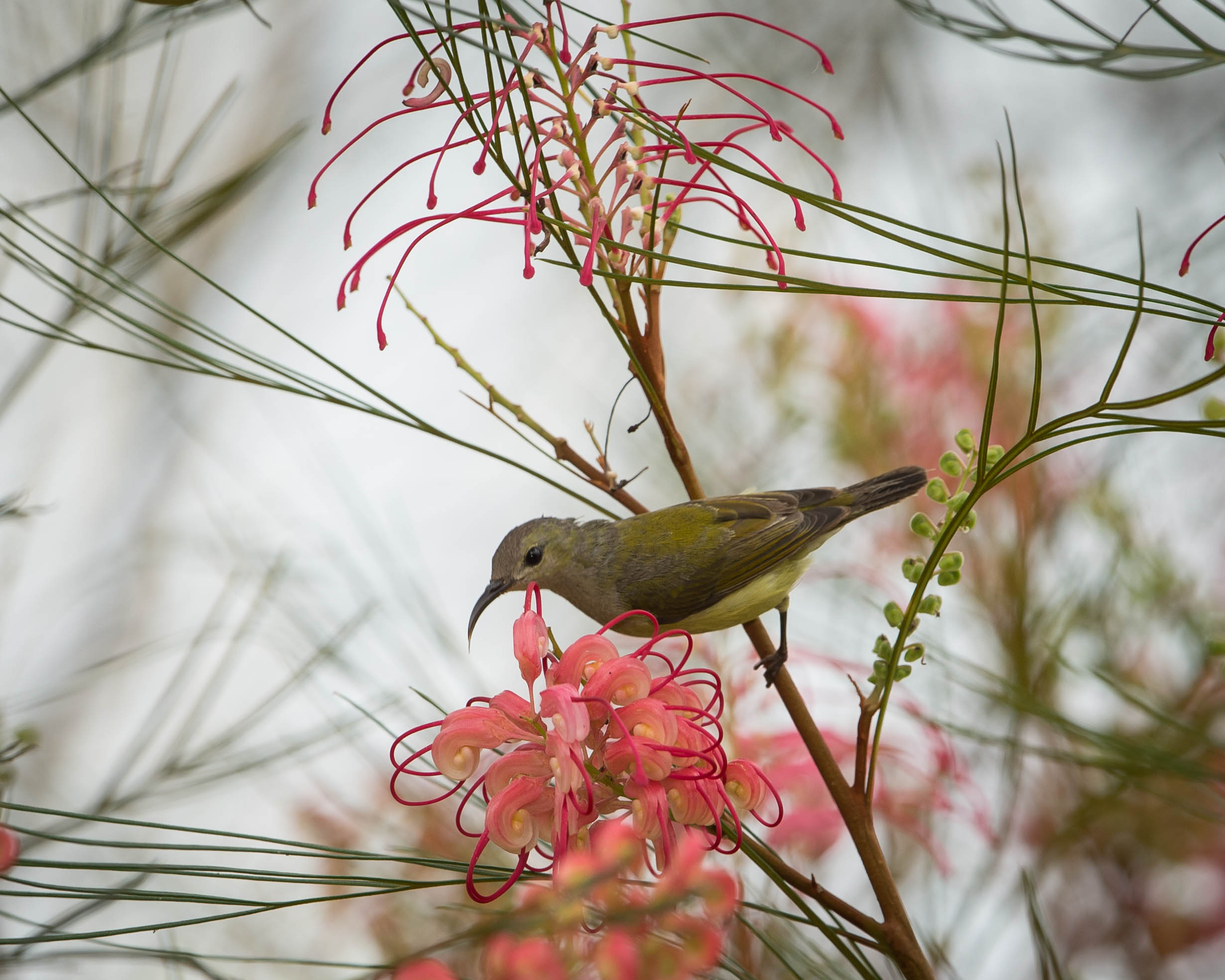 Female of Gould's Sunbird (Aethopyga gouldiae). Doi Inthanon Royal Project, Doi Inthanon, Chiang Mai, Thailand